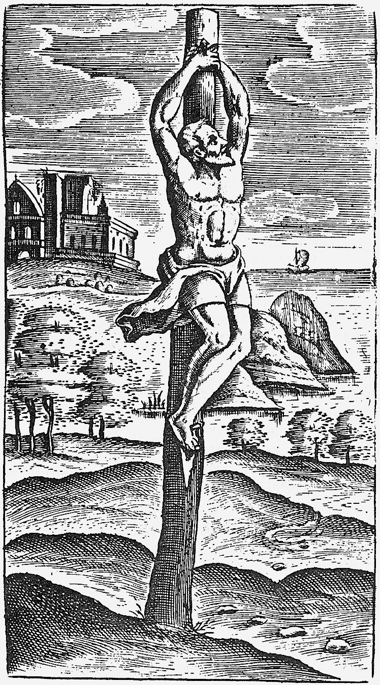 "Crux simplex", a simple wooden torture stake, according to the classic Greek word "stavros" ("σταυρός"), by Justus Lipsius (1547-1606), De Cruce Libri Tres, Antwerp, 1629, p. 19.